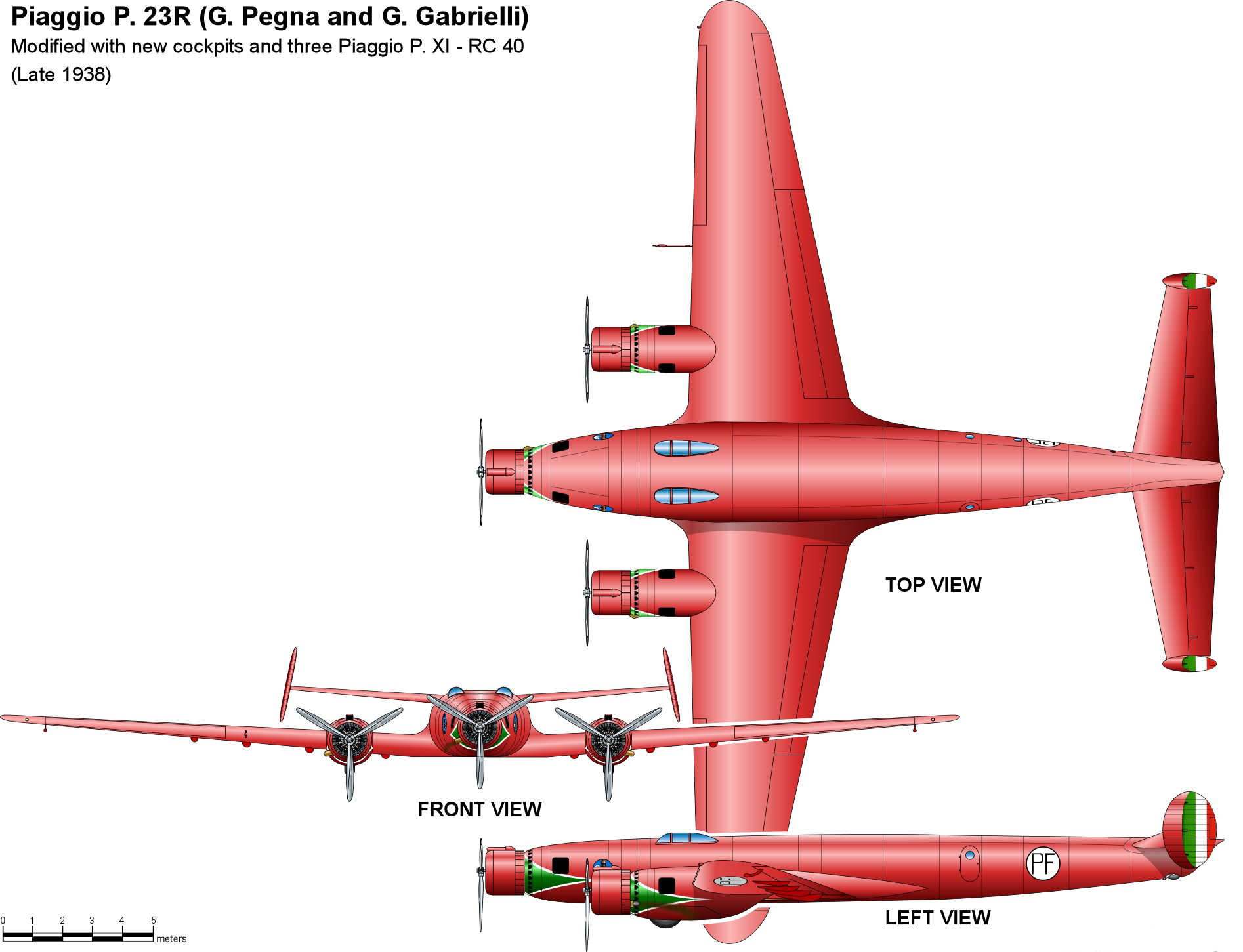 Piaggio P 23R Later version